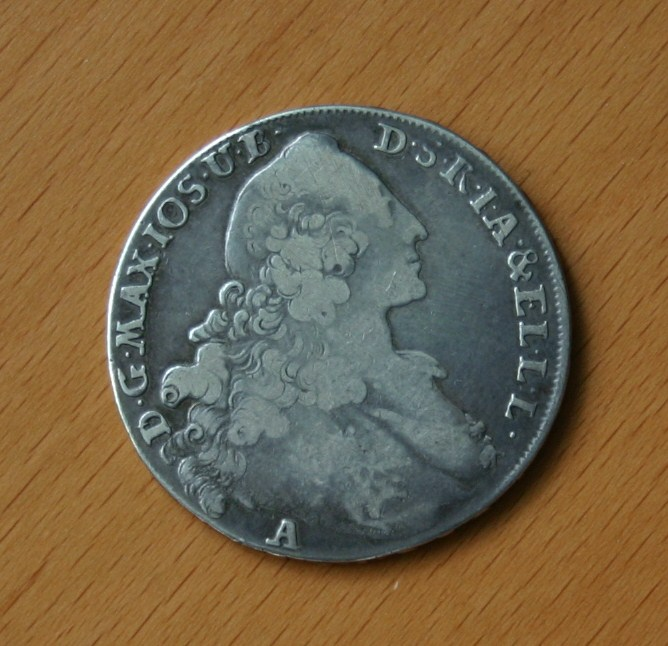 Konventionstaler Maximilian III Josepf (Bayern)